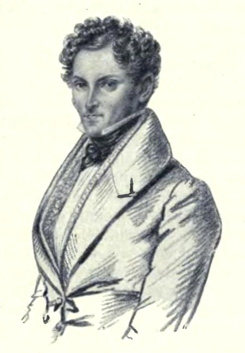 Svante (Sven) Schyberg, Swedish theatre manager. After a drawing by Maria Röhl 1835. Image from Nils Personne: Svenska Teatern VIII (1927).